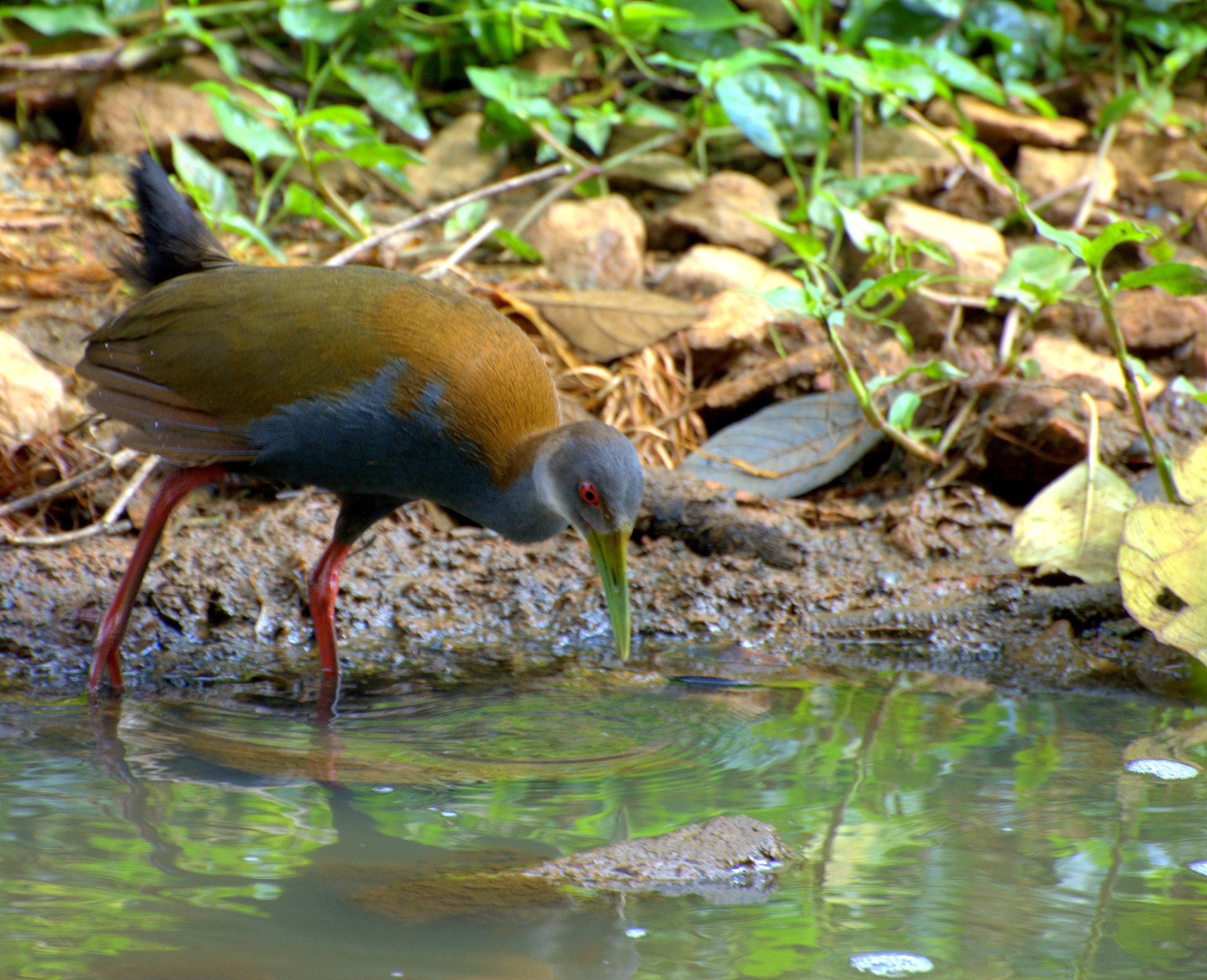 A Slaty-breasted Wood-rail (Aramides saracura)